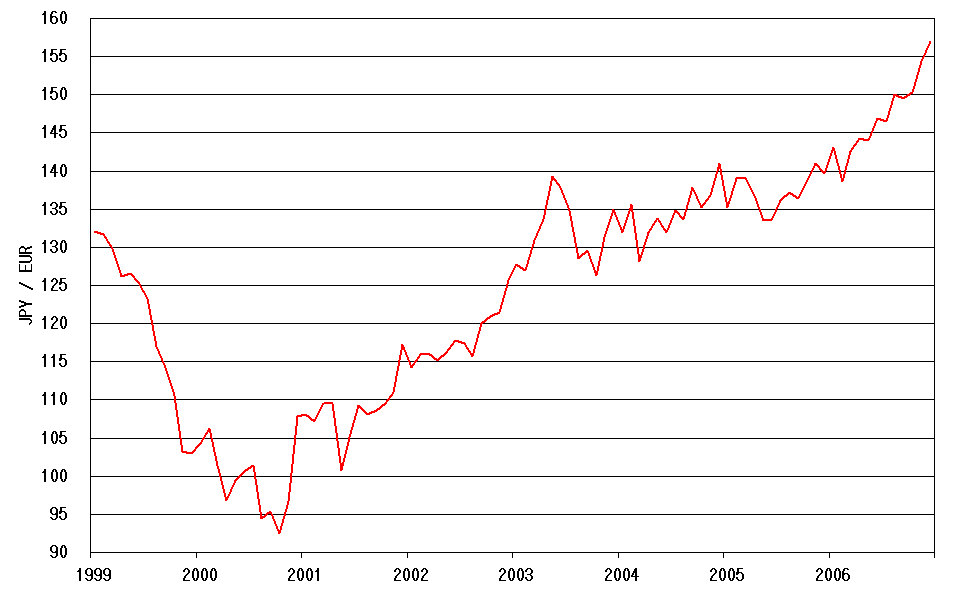 Graph showing Japanese yen and Euro exchange rate from January, 1999 to December, 2006.